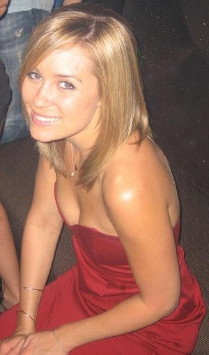 American television personality Lauren Conrad at the Borgata Casino, Atlantic City, New Jersey, USA